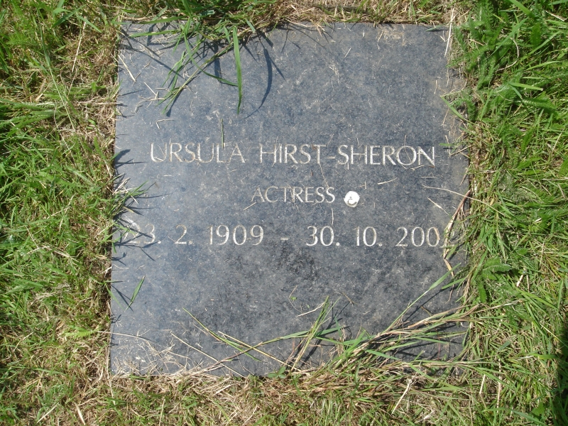 Ursula Hirst grave in Brompton Cemetery.